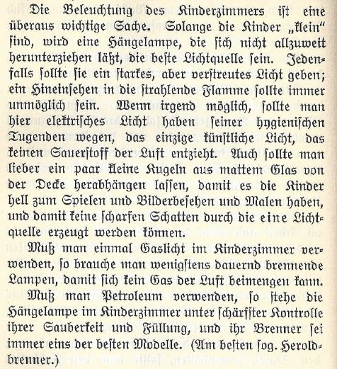 Part of Klara Schleker The Culture of Flat 1911, p. 196